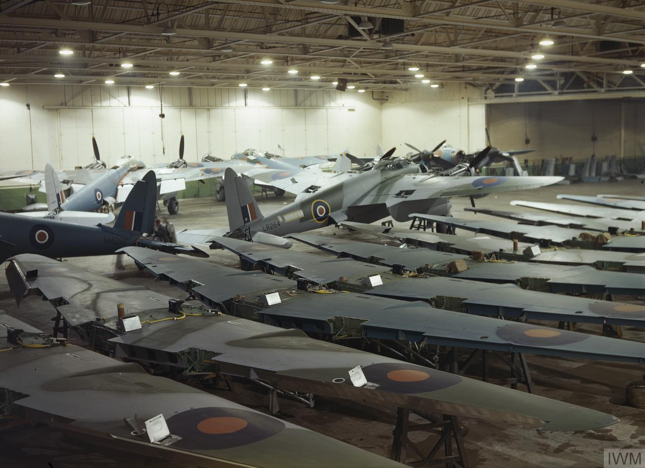 Building Mosquito Aircraft at the De Havilland Factory in Hatfield, 1943 Mosquito aircraft in various stages of production at Hatfield.